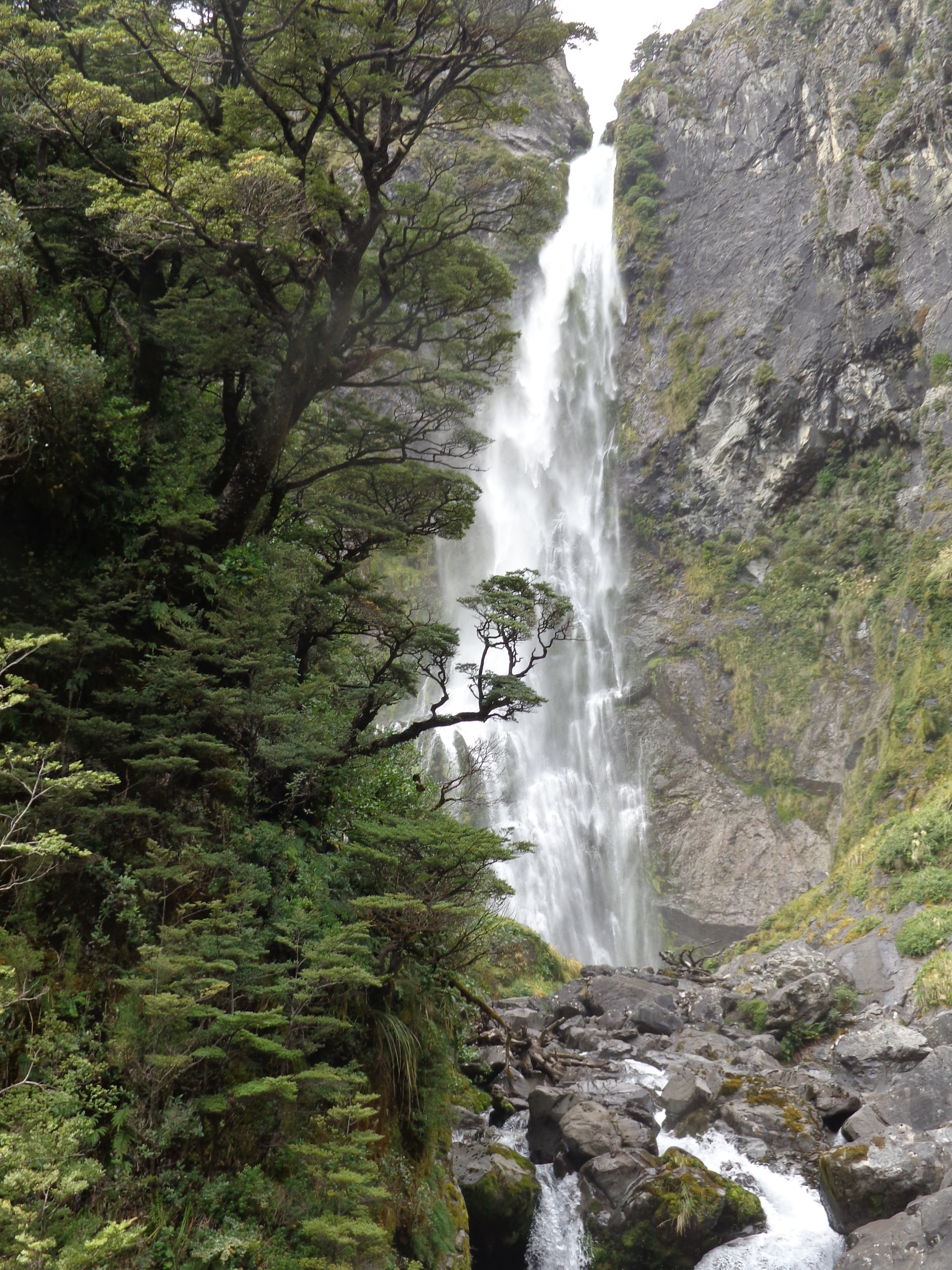 Arthur's Pass National Park